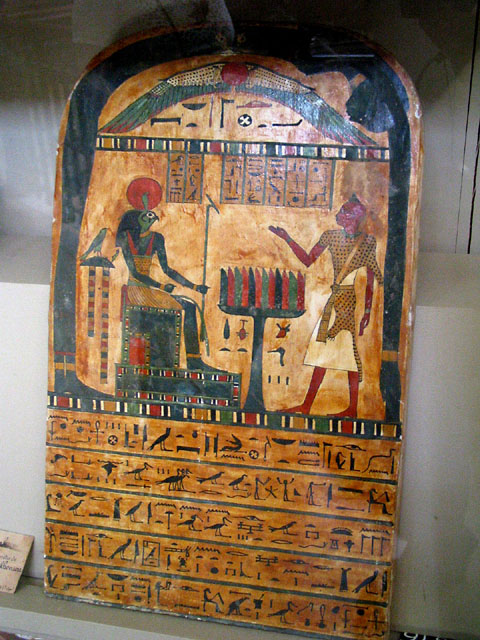 Estèle of Ankh-af-na-Konshu